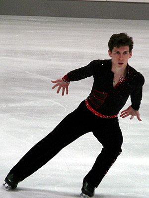 Shaun Rogers during his free skate at the 2007 Nebelhorn Trophy.